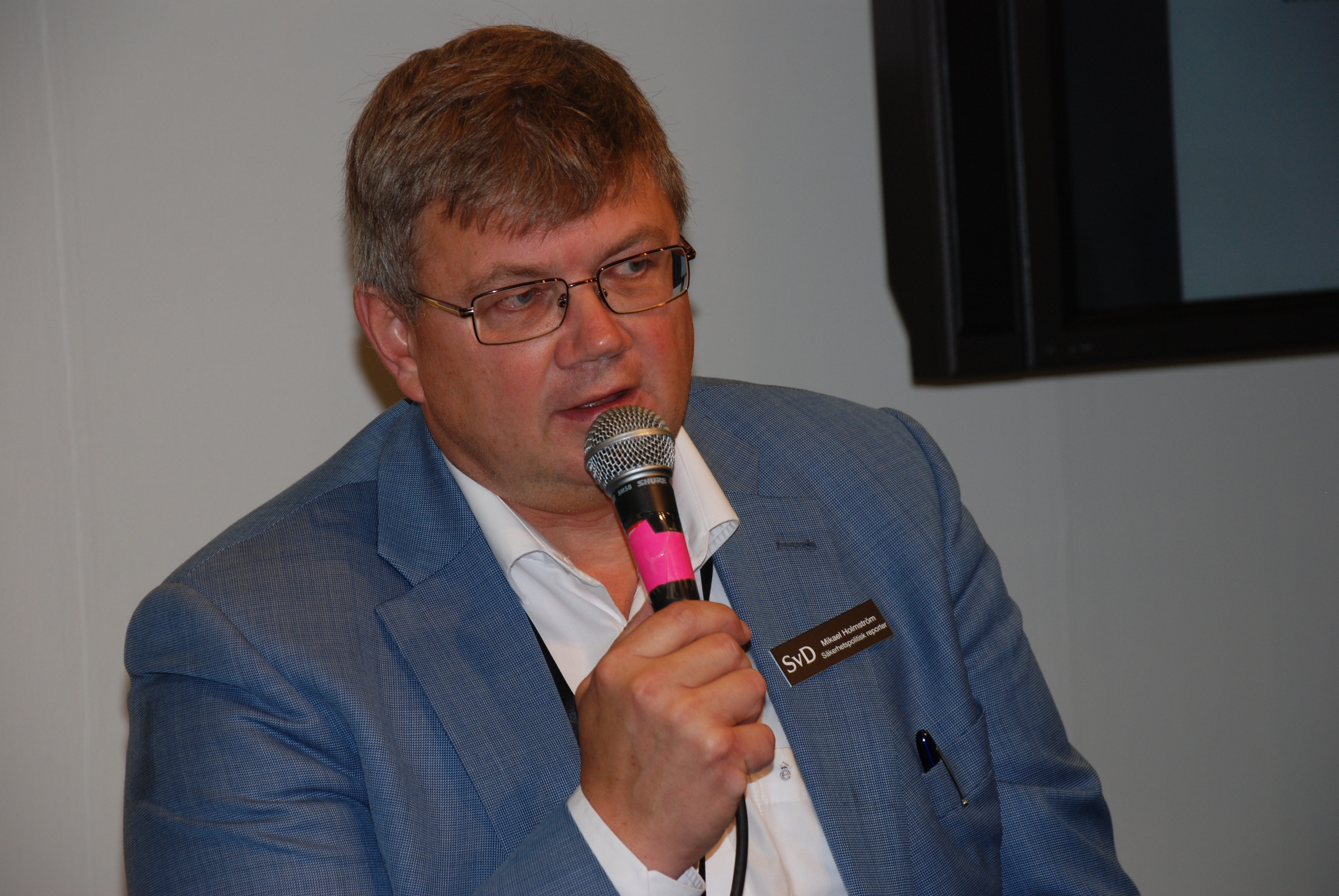 Journalist and author Mikael Holmström at Göteborg Book Fair 2011.